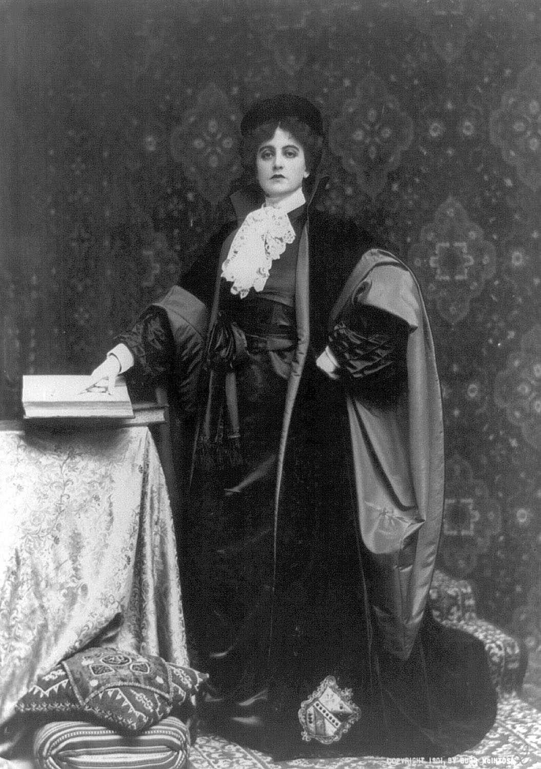 Actress Maxine Elliott, dressed in the role of Portia, c.1901